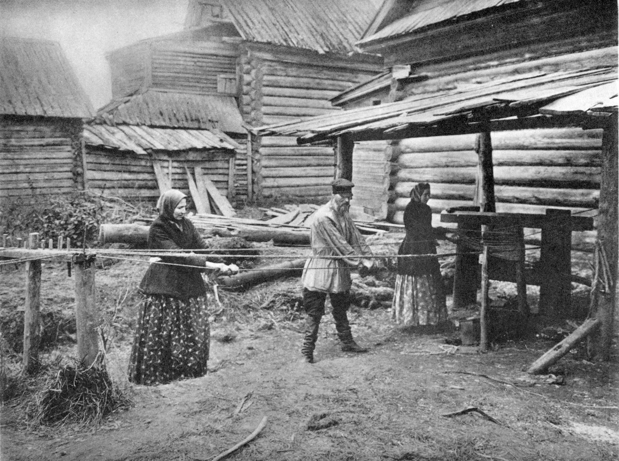 Handicraft Industry and Trades of Nizhegorodskaja gubernija. Ropemaking. Pavlovo. XIX c.